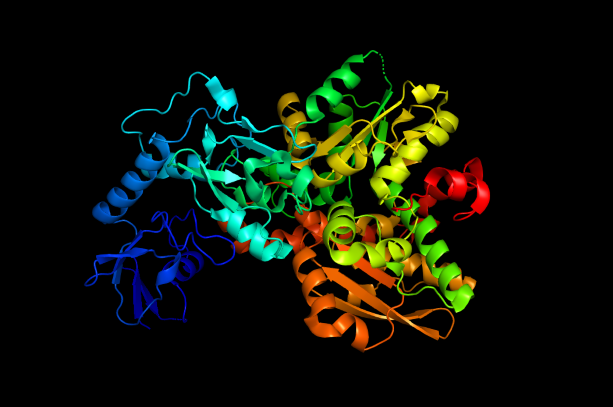 A 3D rendering of the enzyme ferrodoxin hydrogenase